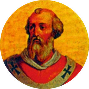 Portait of Pope Theodore II in the Basilica of Saint Paul Outside the Walls, Rome